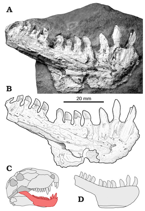 Holotype specimen (LFN−PW 2008/5599−LS) of Cryptovenator hirschbergeri Fröbisch et al. 2011 from the Remigiusberg Formation (lowermost part of Rotliegend Series, Upper Pennsylvanian) of the Saar-Nahe Basin (Rhineland Palatinate, Germany), a right dentary (i.e. the right tooth-bearing bone of the lower jaw). A: Photograph. B: interpretative drawing. C: Diagrammatic illustration of skull of Dimetrodon grandis, with the dentary highlighted (for comparison). D: Diagrammatic illustration of holotype of Cryptovenator hirschbergeri (C and D not to scale!).